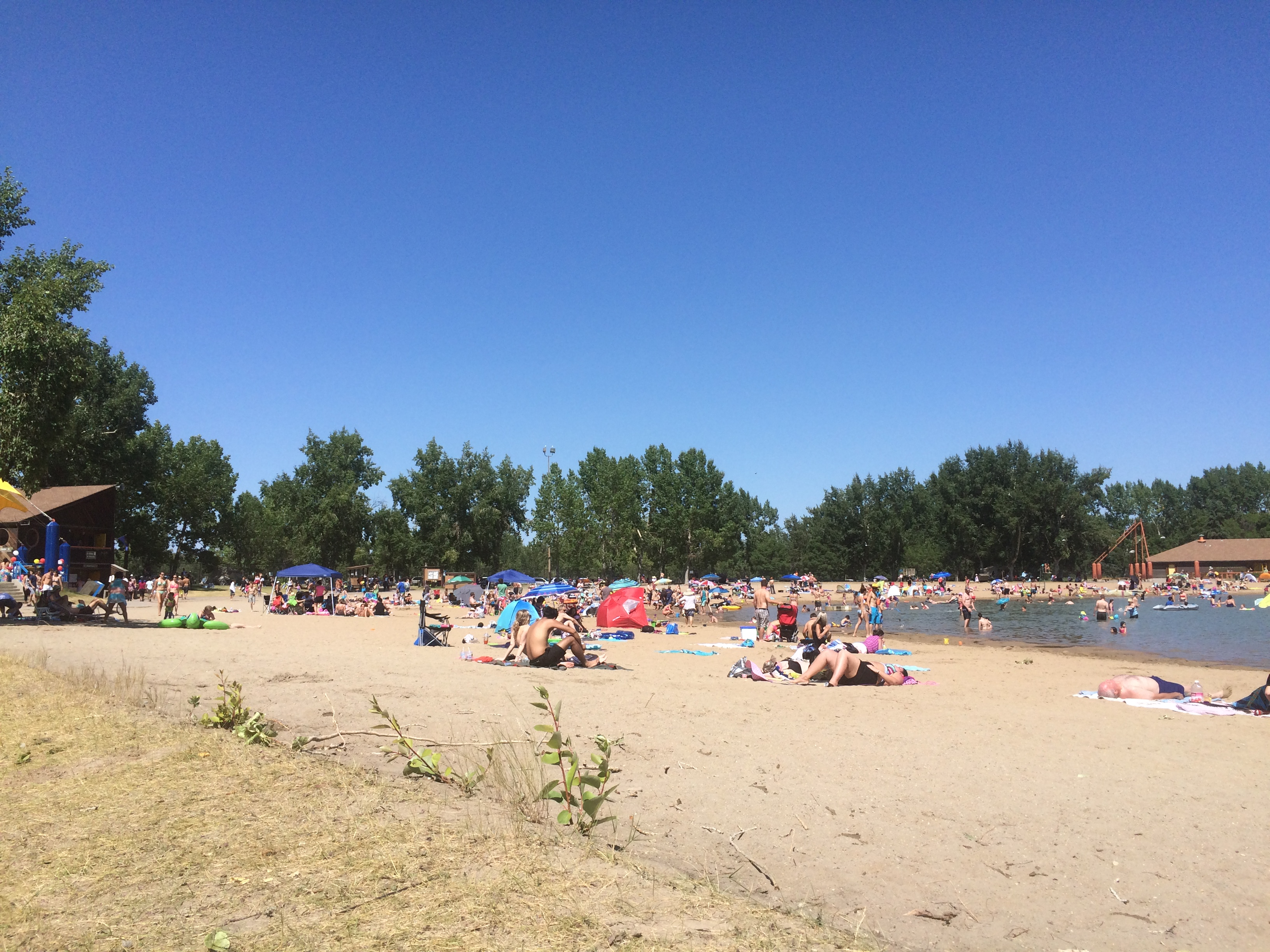 Picture showing people laying in the sun and also playing in water